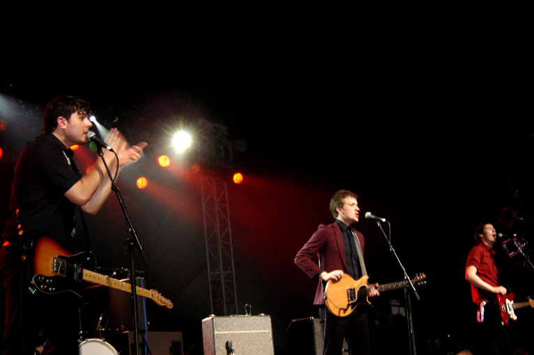 The Futureheads